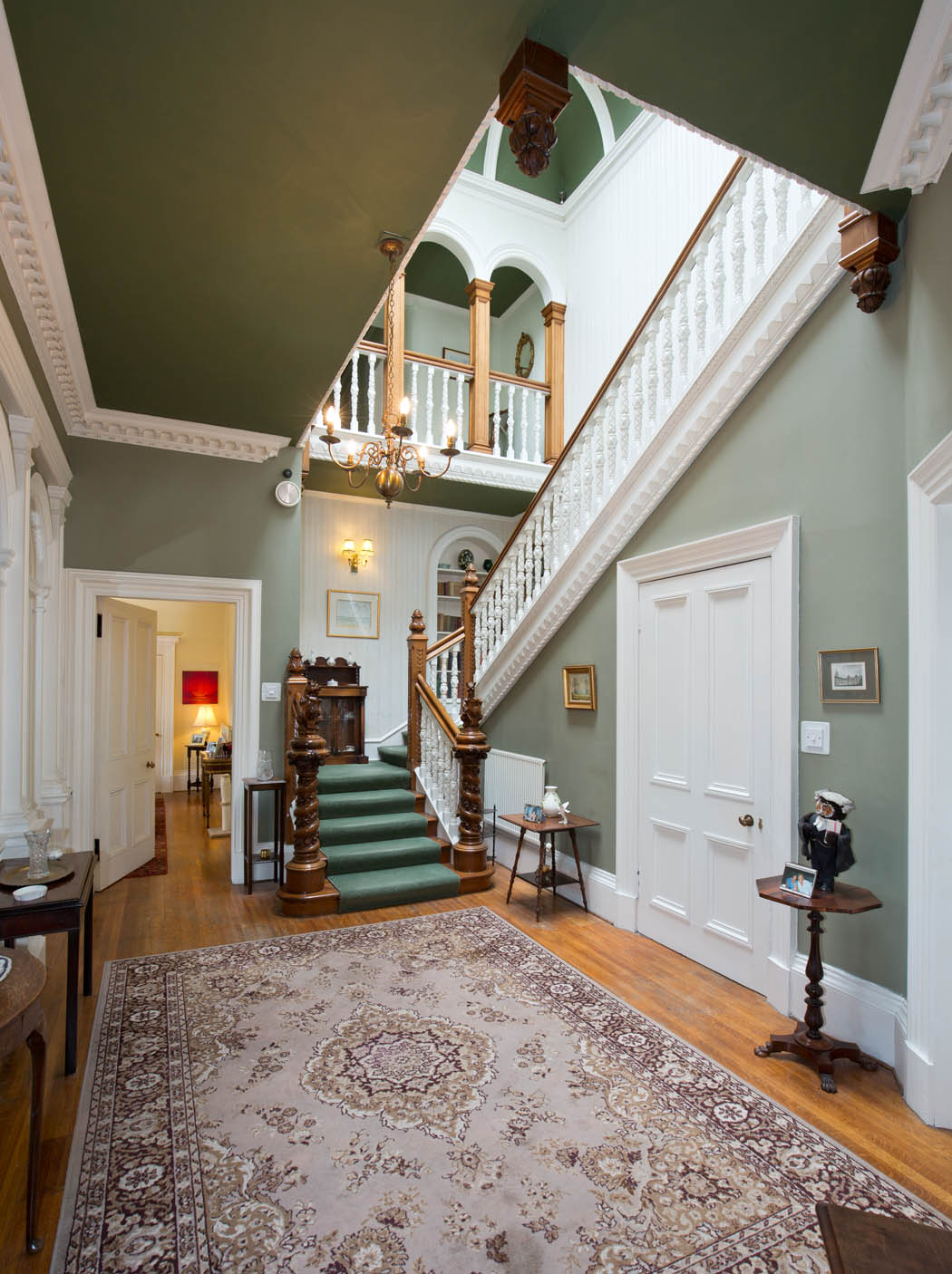 Staircase at The Kirna, Walkerburn